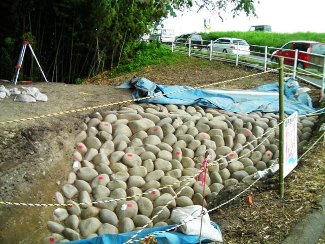 Chouna SaruoTsutsumi(sin-sakaigawa, Gifu, Japan